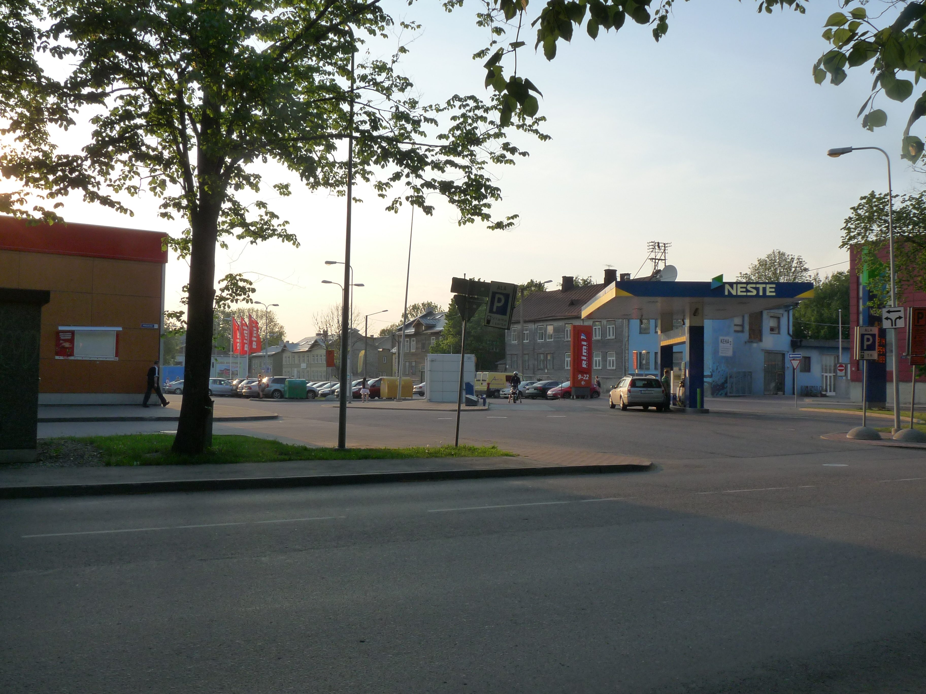 Intersection of Soo and Põhja puiestee streets in Tallinn